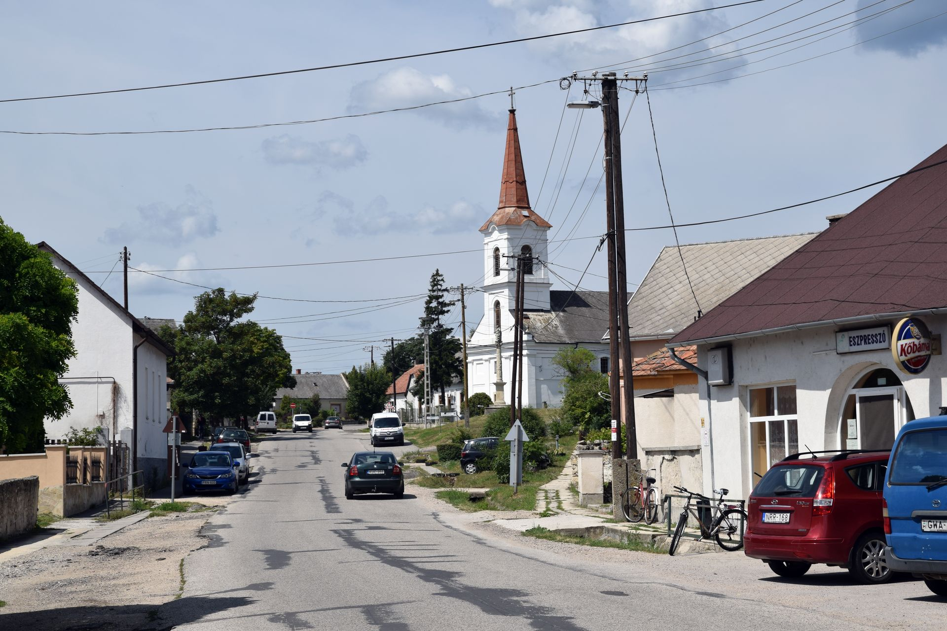 Öskü, main road